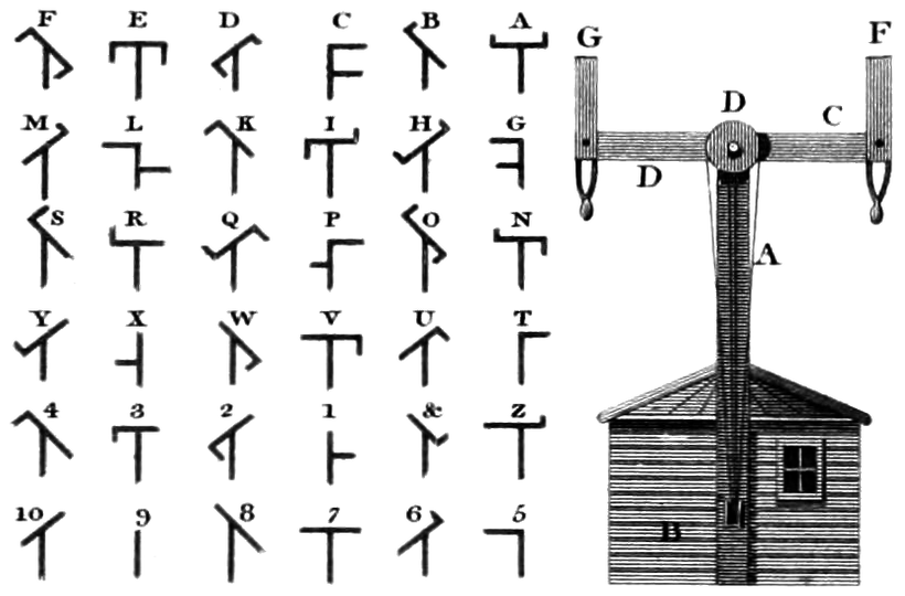 Fig. 4 from the plate on "Telegraph". For explanatory text, see entry on "TELEGRAPH", volume 35 of the Cyclopædia.